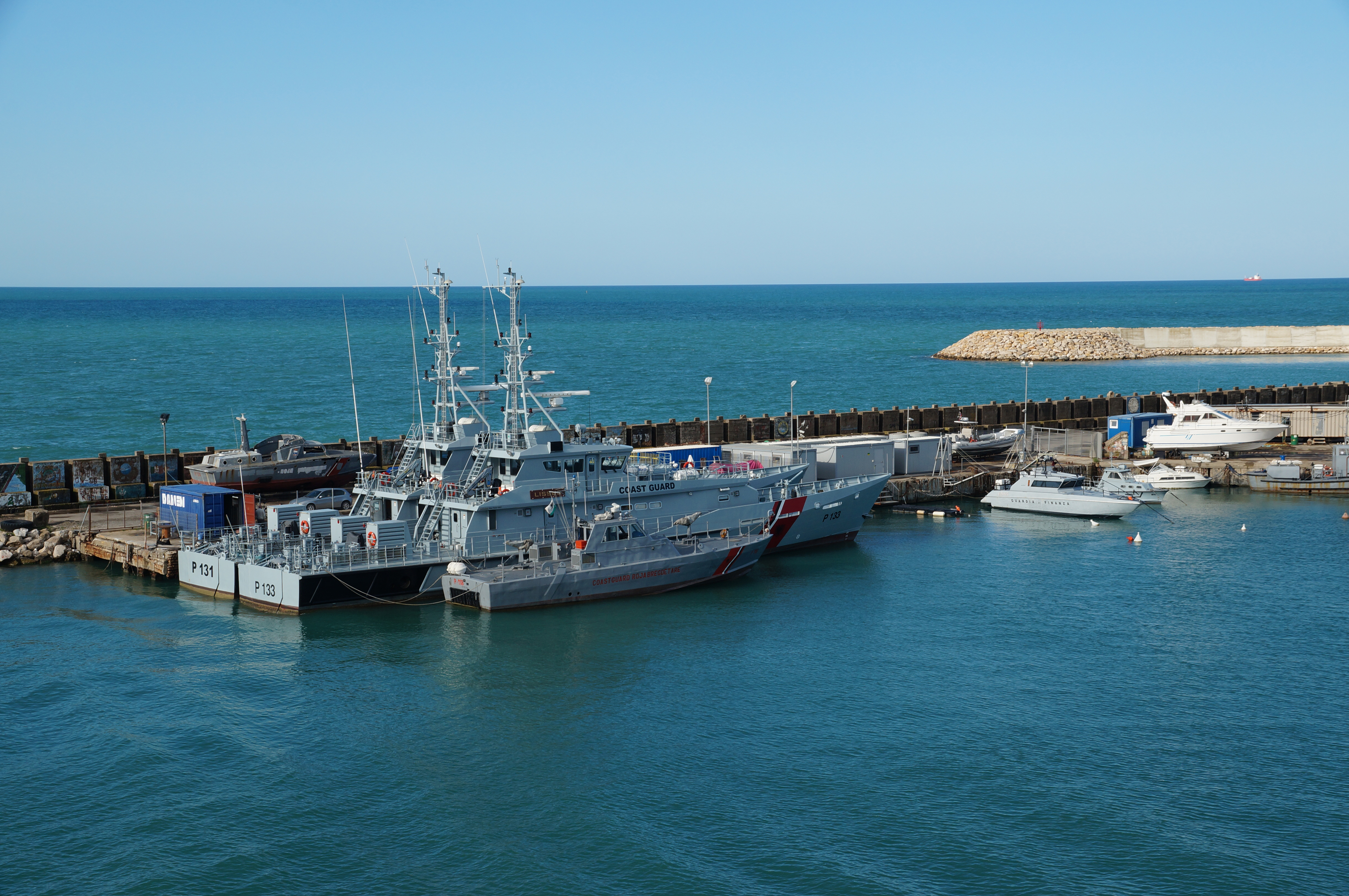 Patrol Boats Iliria and Lissus of the Albanian Navy in the port of Durrës